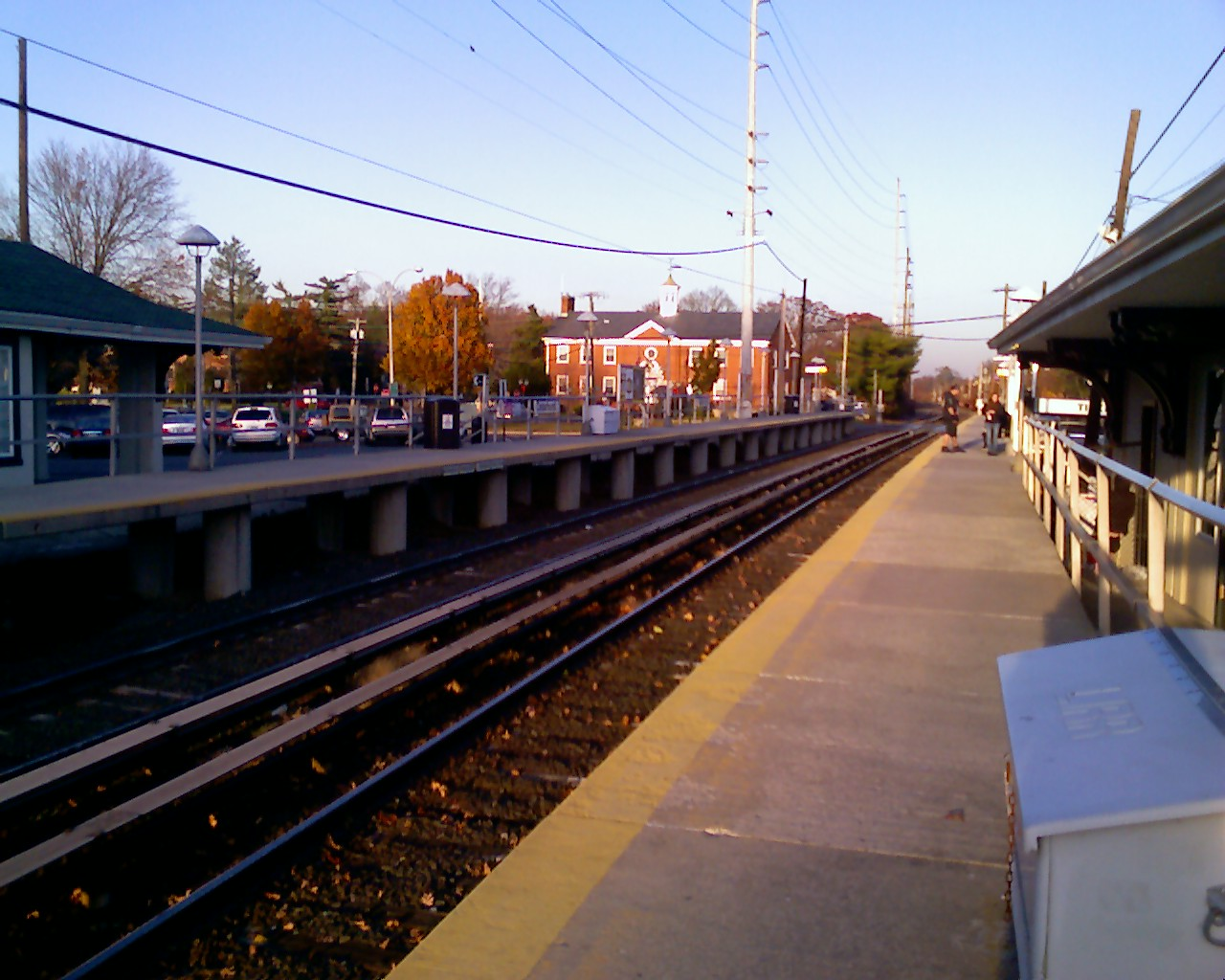 Looking northeast from Cedarhurst Long Island Rail Road station on the Valley Stream-bound platform on November 30, 2007. Cedarhurst Village Hall can be seen in the background on the northwest corner of the Cedarhurst Avenue grade crossing.